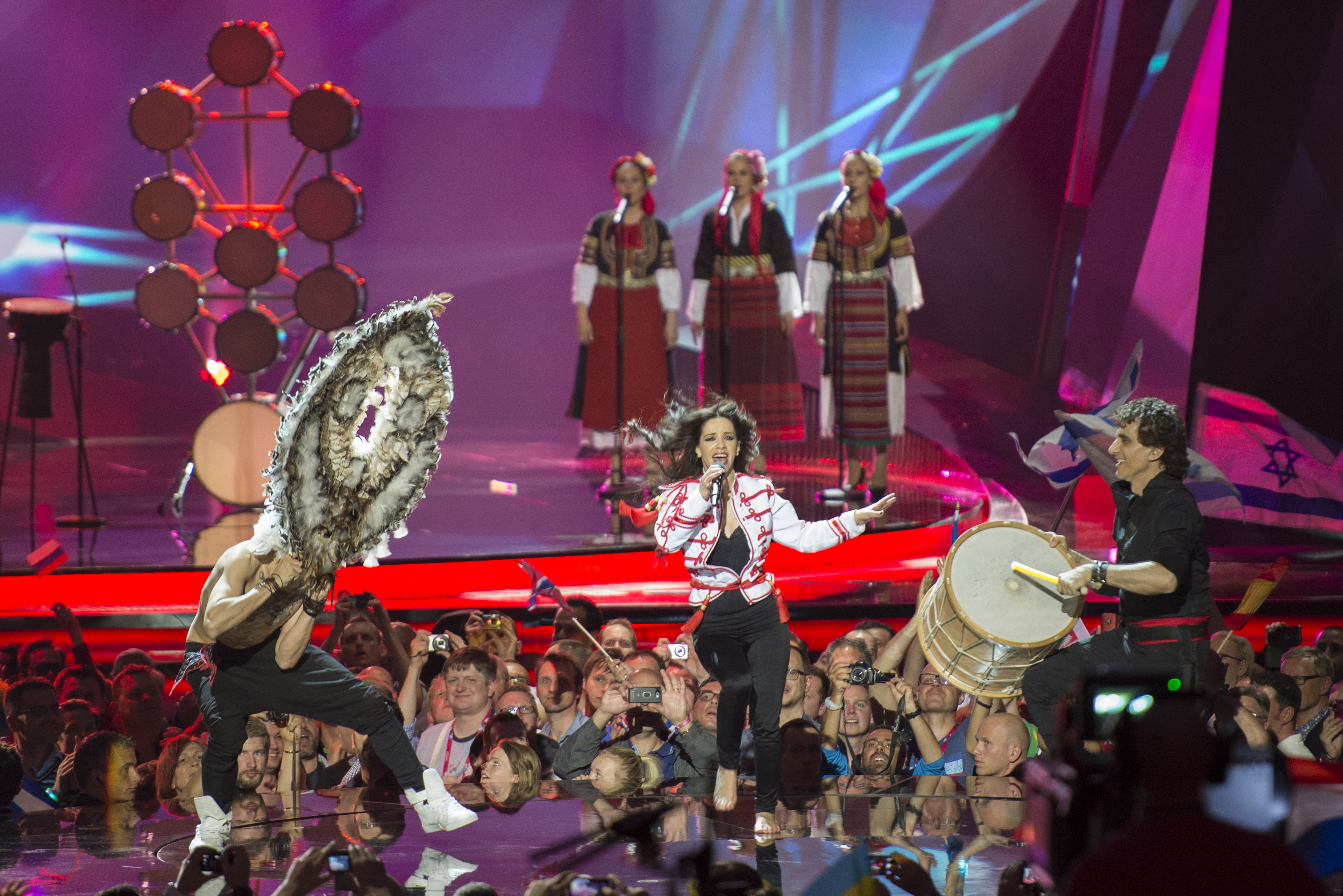 Elitsa Todorova and Stoyan Yankoulov representing Bulgaria with the song "Samo shampioni" (Само шампиони) during the second dress rehearsal of the second semi final of the Eurovision Song Contest 2013 in Malmö. (Help translate this text)